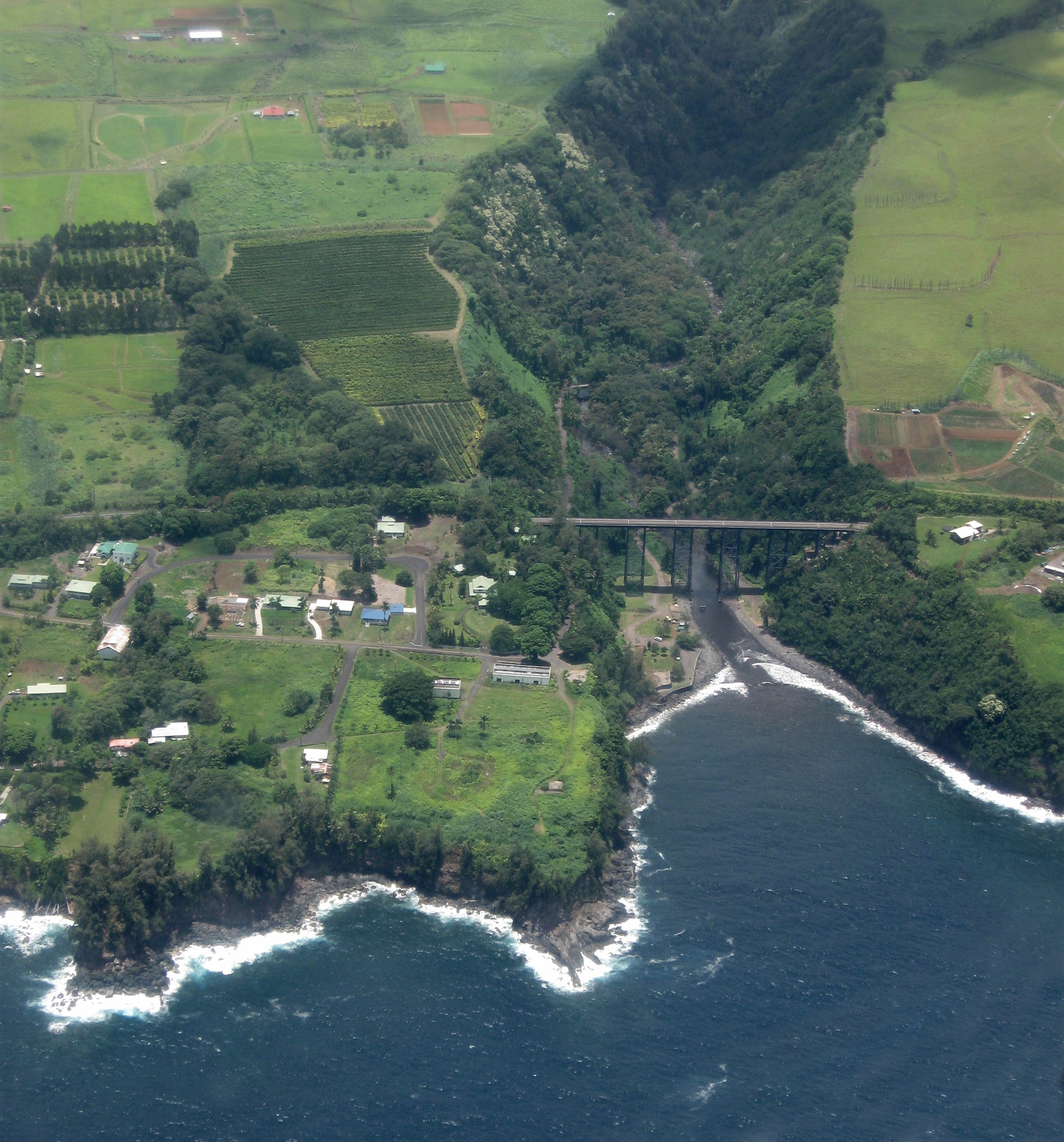 The view from my plane window, just north of Hilo on the Big Island of Hawaii.